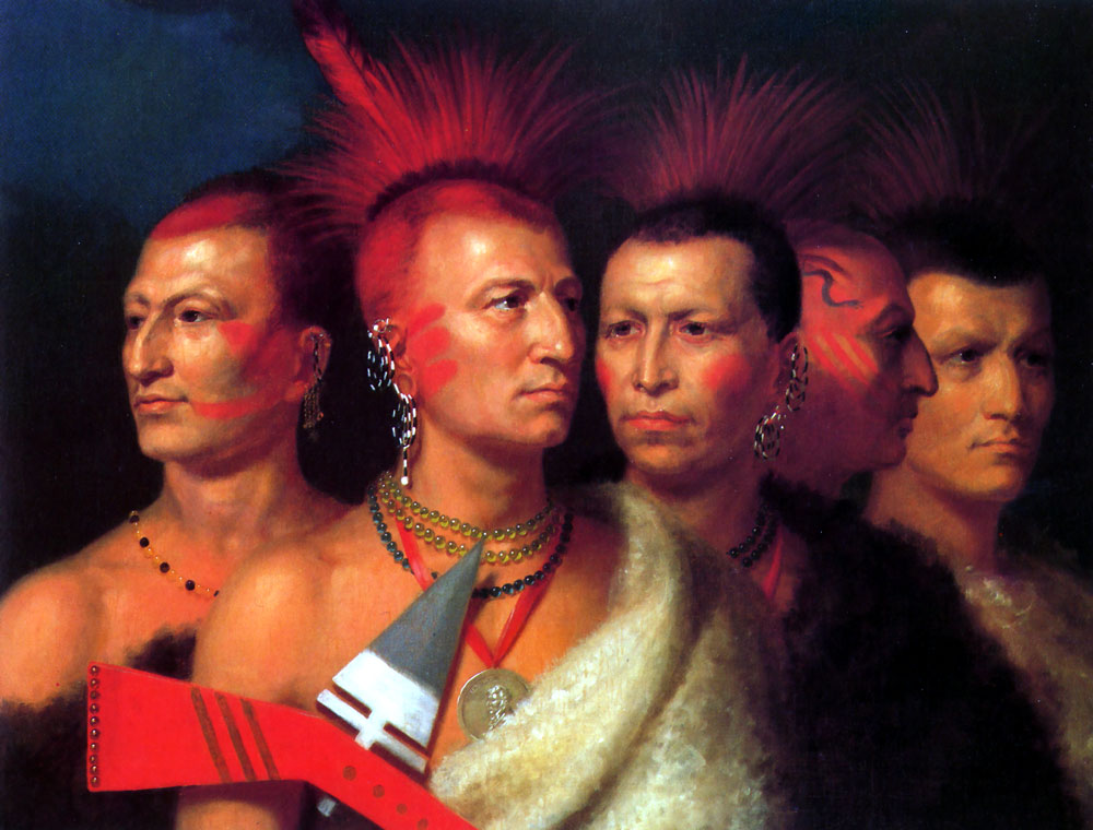 Young Omahaw, War Eagle, Little Missouri, and Pawnees, oil 36 1/8 x 28 in., National Museum of American Art, Smithsonian Institution, Washington DC, gift of Miss Helen Barlow